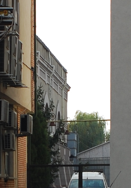 The historical power plant in Buzău, Romania, as much as can be seen from a public place on the street